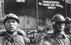 Soldiers and officers of the 1st Moscow Prolitariat Rifle Division at parade on May 1, 1938